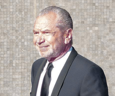 Sir Alan Sugar at the BAFTA awards 2009, mirrored and zoomed-in from original